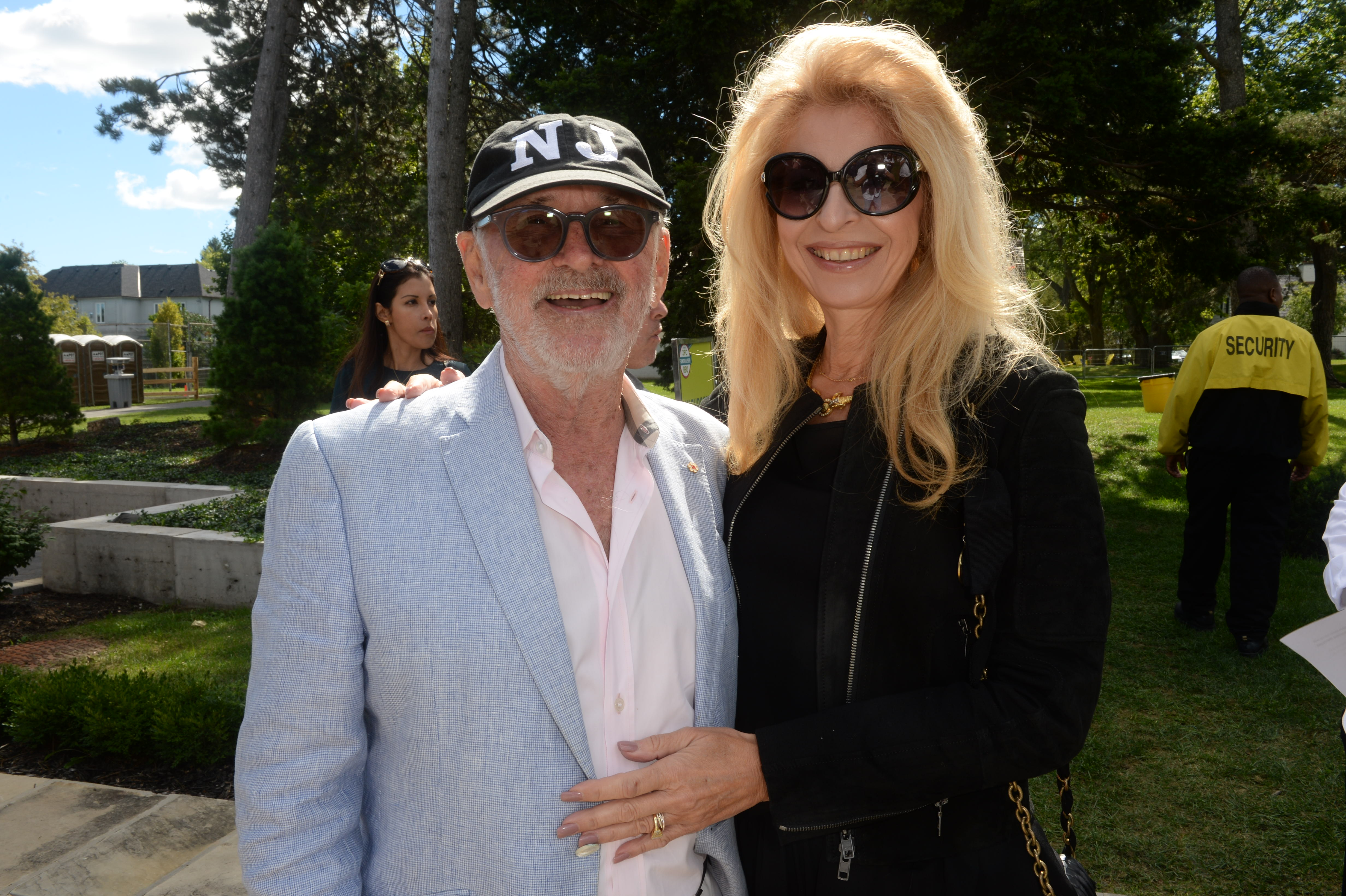 Norman Jewison (Founder and Chair Emeritus, CFC) and wife Lynne St. David-Jewison Photo: Tom Sandler Photography